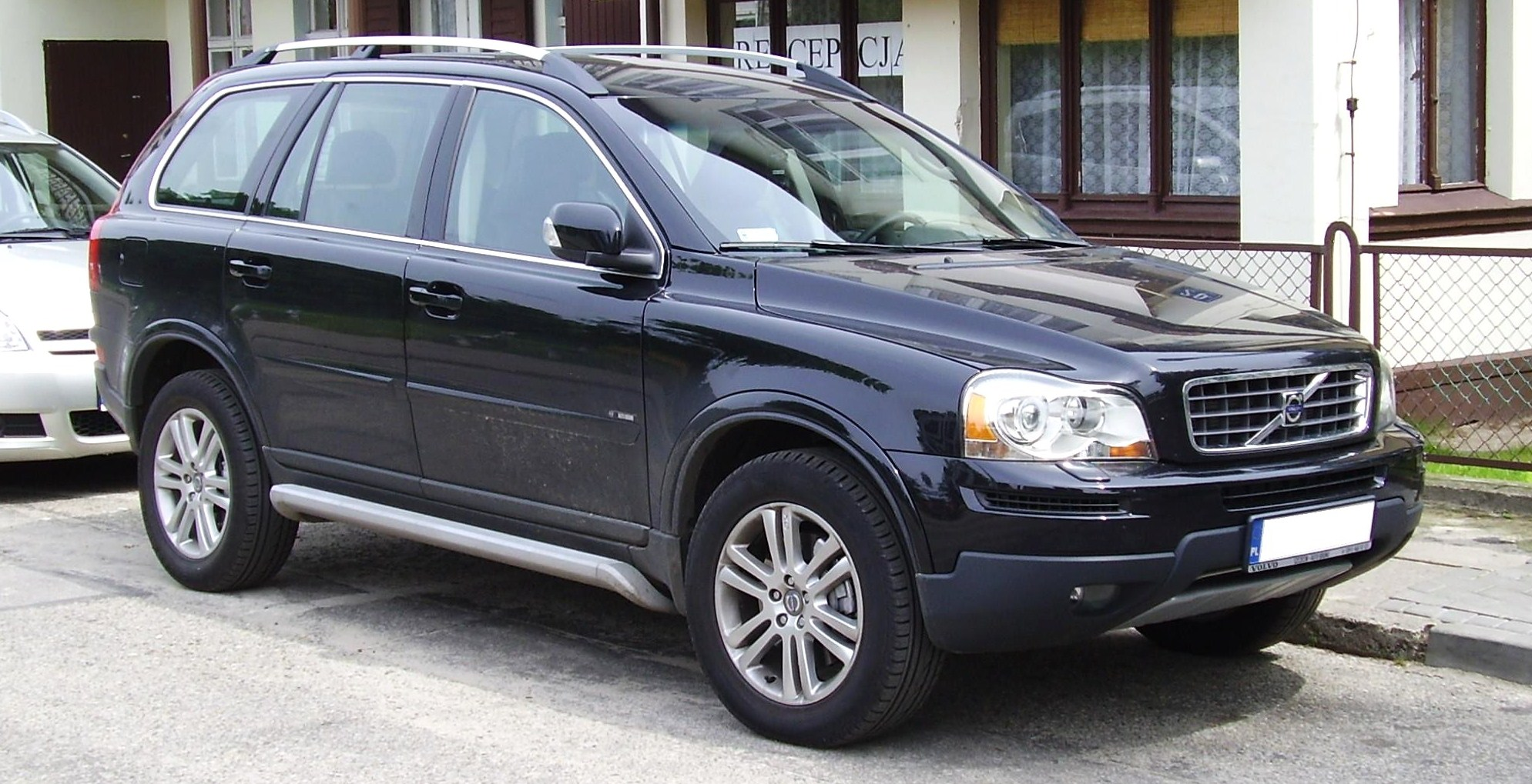 Volvo XC90 D5 in Międzyzdroje (Poland)